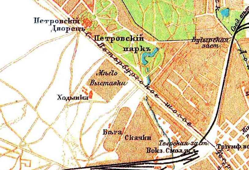 An 1895 map of Khodynka in Moscow